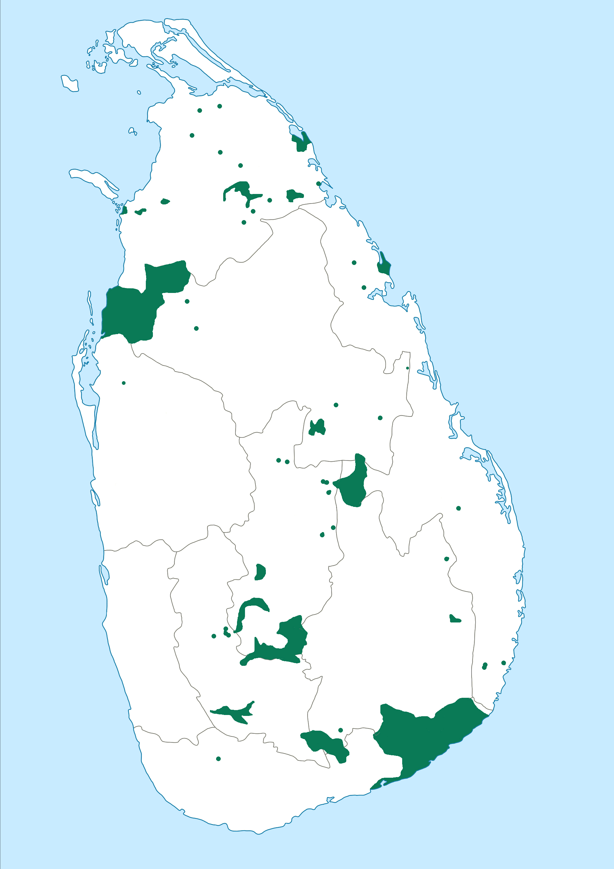 Srilankan leopard range map; Coexisting with ‘spotted cats’ in the jungle